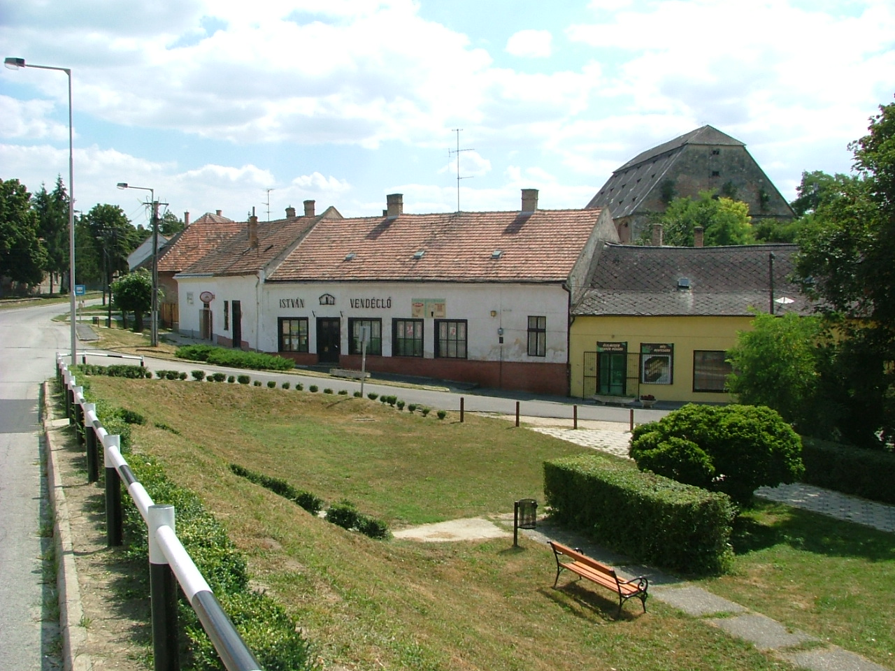 Szabadság tér (~Freedom square), Pannonhalma